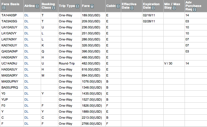 Listing of available fares on Delta Airlines (DL) from SFO to BOS as of 10/6/2010 This table shows the available fares available for travel from San Francisco, CA to Boston, MA on Delta Airlines as effective 10/6/2010. In it you can see the advance purchase required, minimum/maximum stay (V means Saturday night) and booking class effective for each individual fare. Seats in the specific booking class must be available on a particular flight in order to purchase a ticket using a given fare.